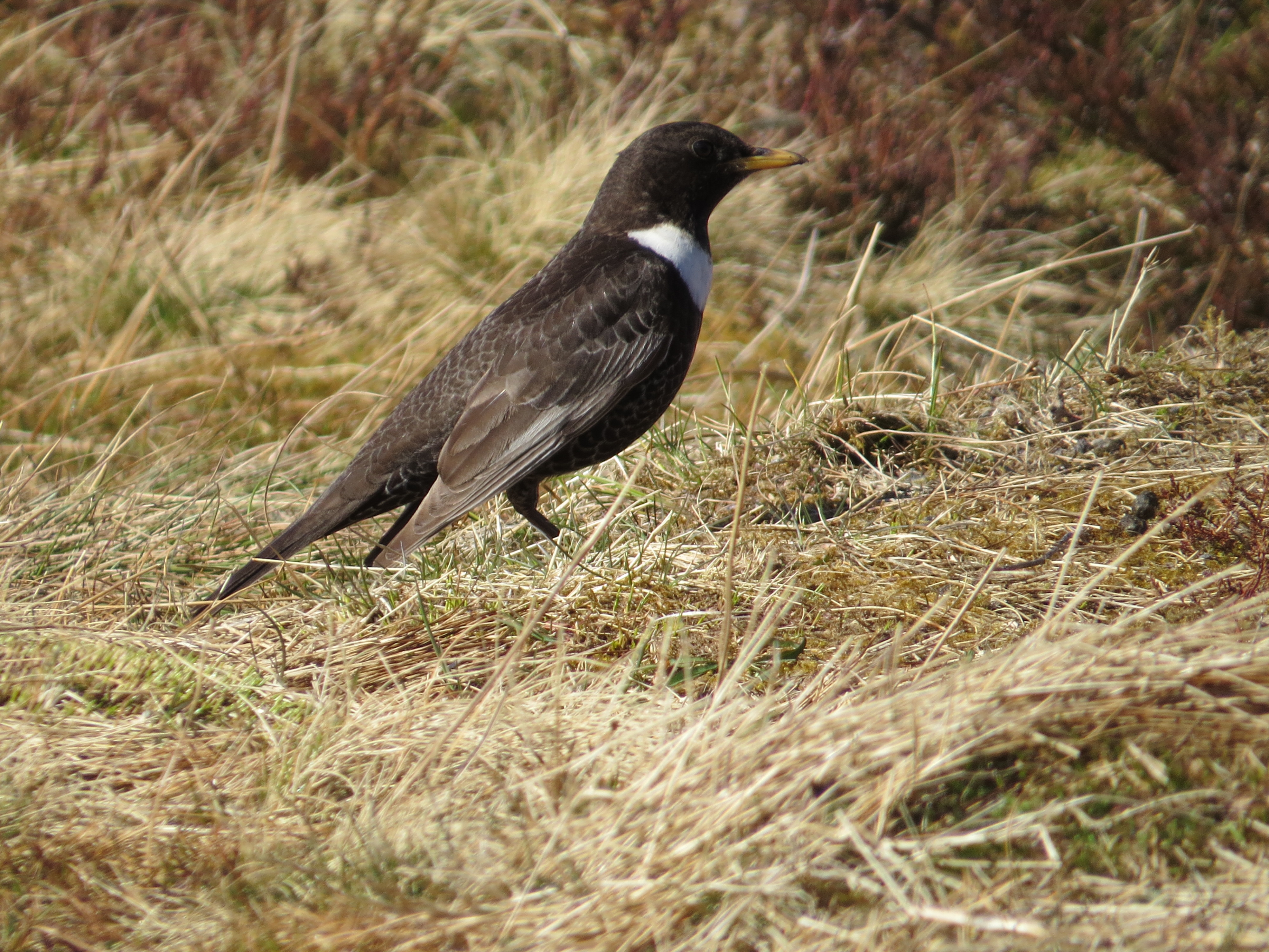 Ring Ouzel Turdus torquatus torquatus, male, at 635 m on Cairngorm, Scotland